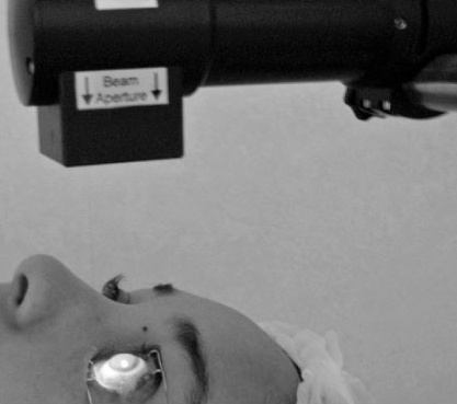 Corneal collagen cross-linking procedure, UV light source.